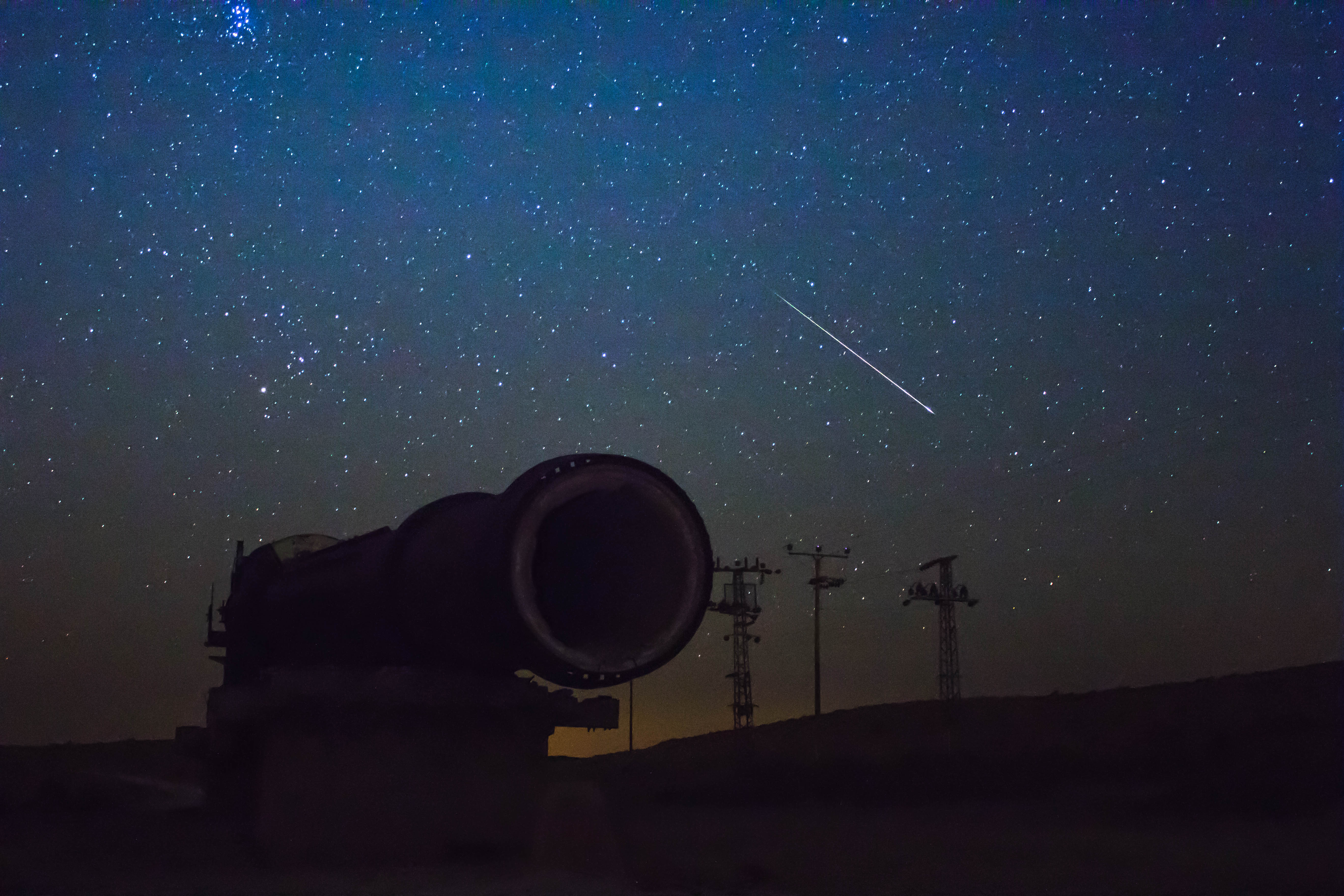 Perseids shower 2016, Ramon Crater, Israel. in the foreground- old mining machine.